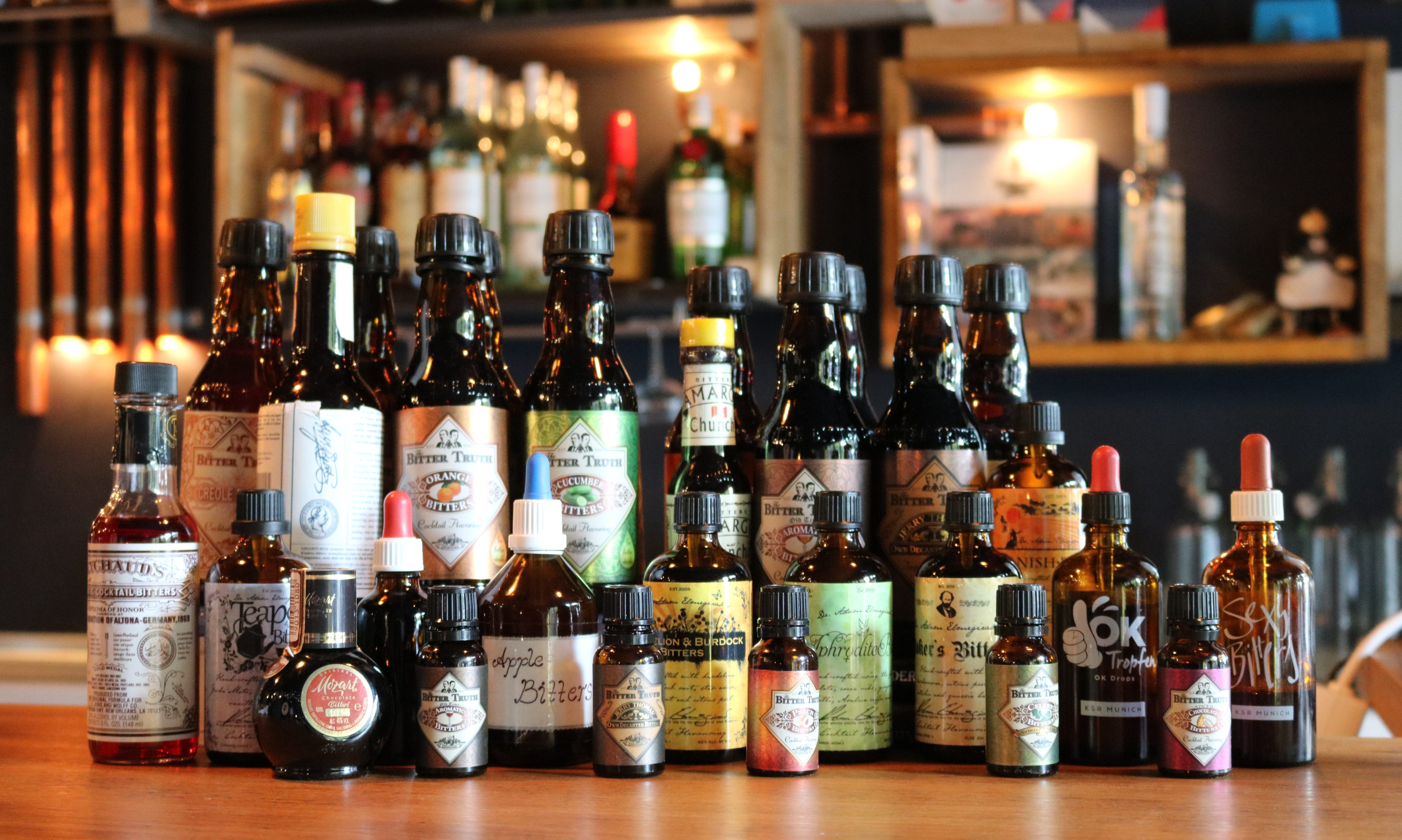 A variety of cocktail bitters.